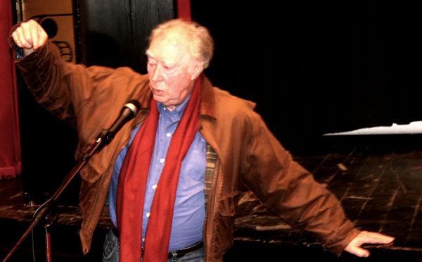 Portrait of Michael Snow in Tel Aviv